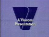 The V of Doom